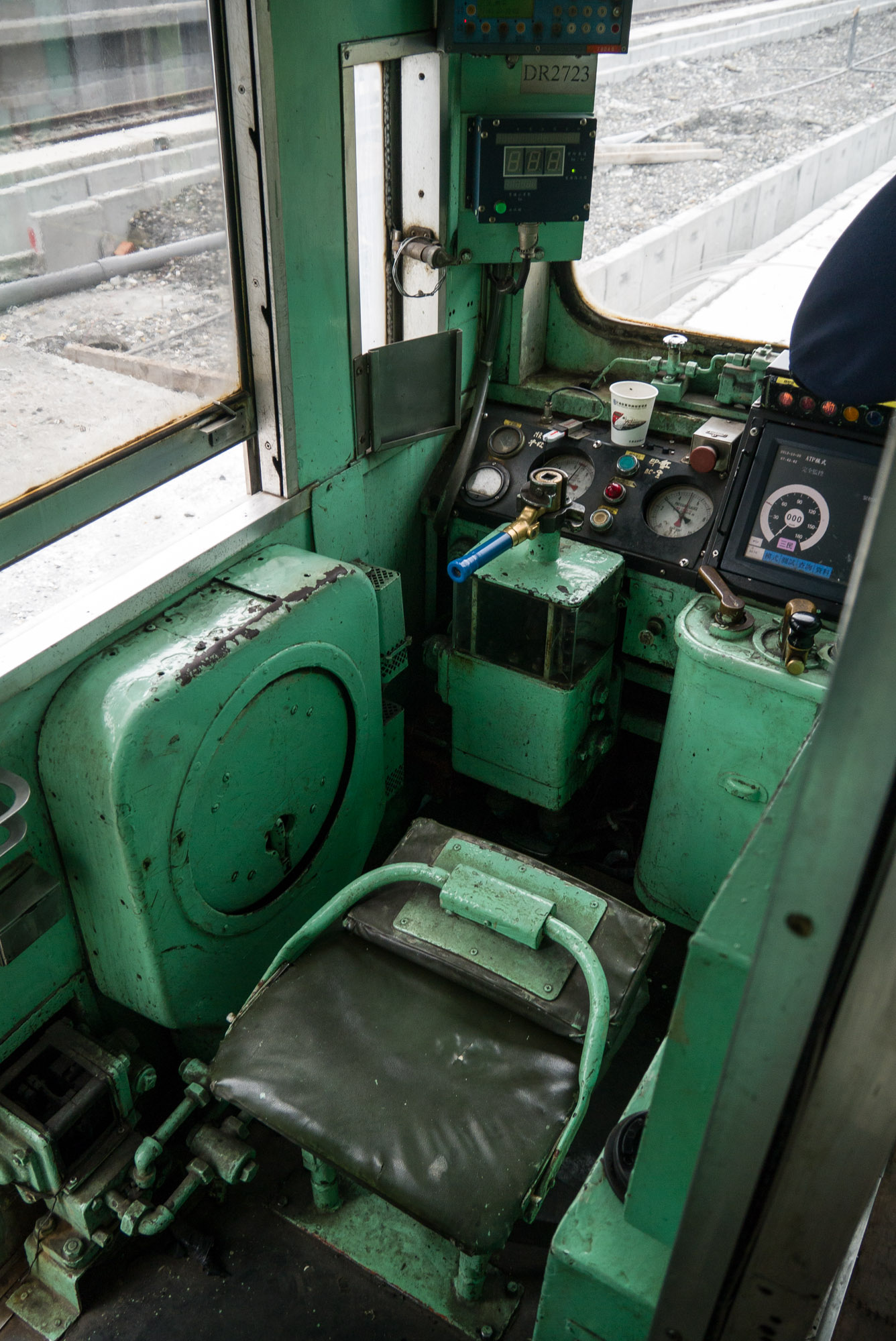 TRA DR2723 driver seat.